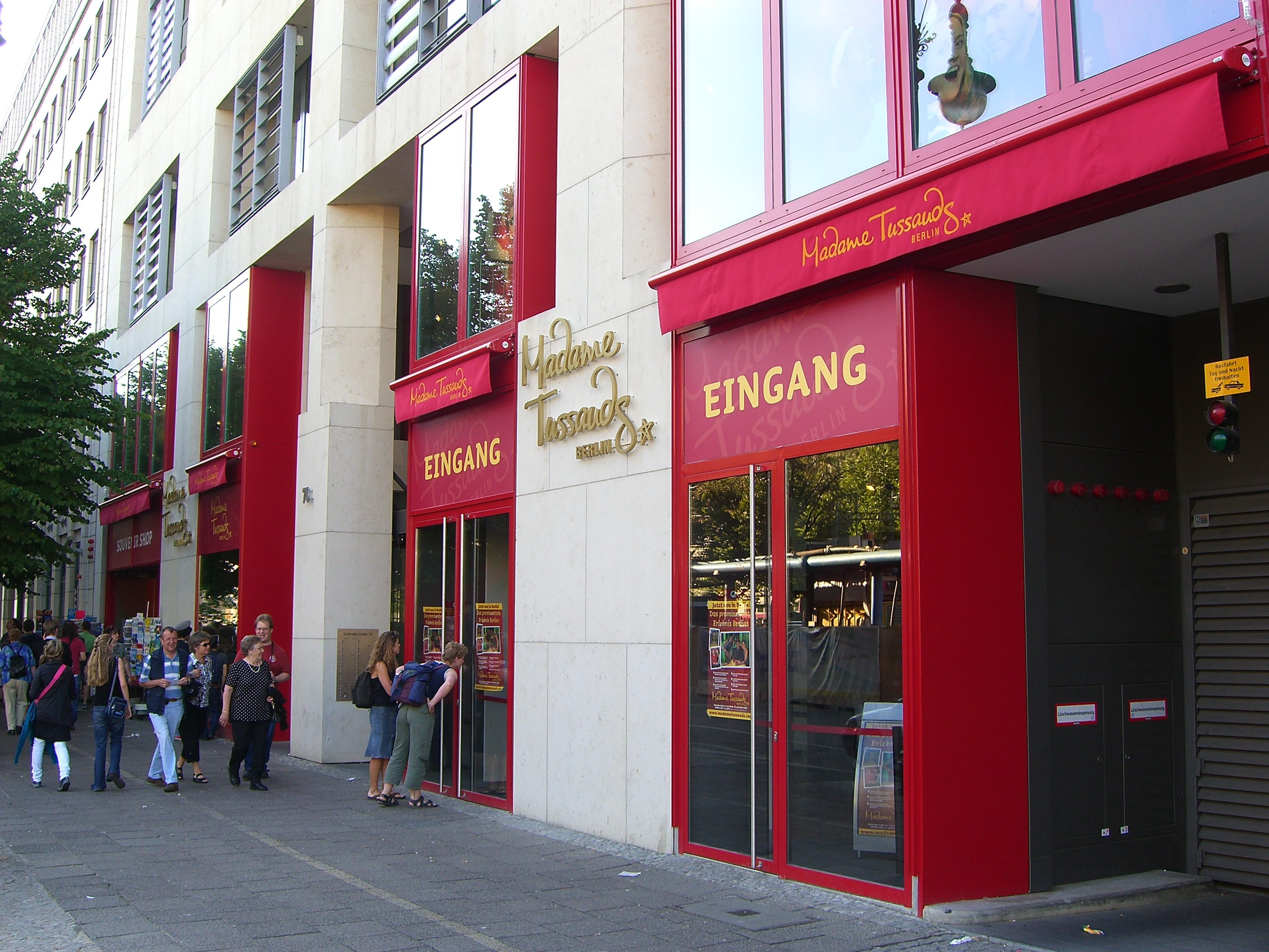 Madame Tussauds in Berlin.